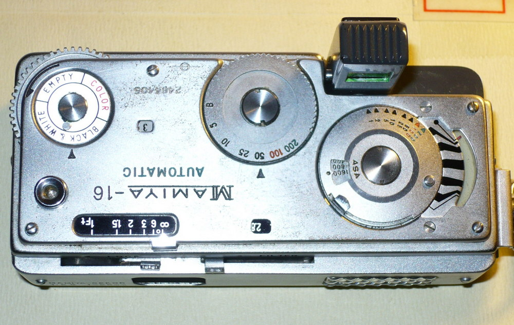 Mamiya 16 automatic